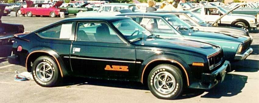 1980 American Motors (AMC) AMX - black on black - right side view. Photograph taken at the "Free" Northeast AMC meet that were held in the Albany, NY area.